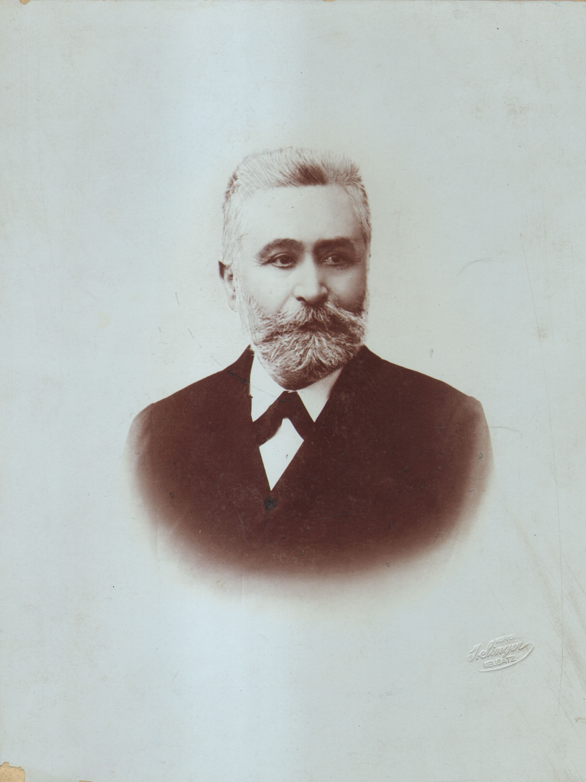 Photograph of Ilija Vučetić (1844-1904), Serbian politician, writer, lawyer and publicist (ca. 1895). Srpski (latinica): Fotografija Ilije Vučetića (1844-1904), srpskog političara, književnika, advokata i publiciste (oko 1895).